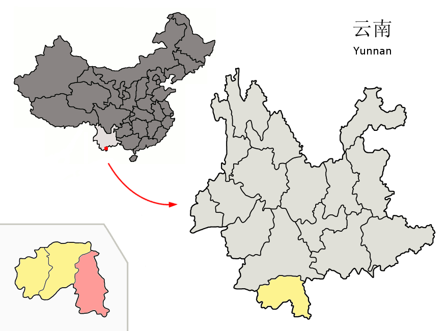 Location of Mengla County (pink) and Xishuangbanna Prefecture (yellow) within Yunnan province of China Map drawn in september 2007 using various sources, mainly : Yunnan province administrative regions GIS data: 1:1M, County level, 1990 Yunnan Counties map from